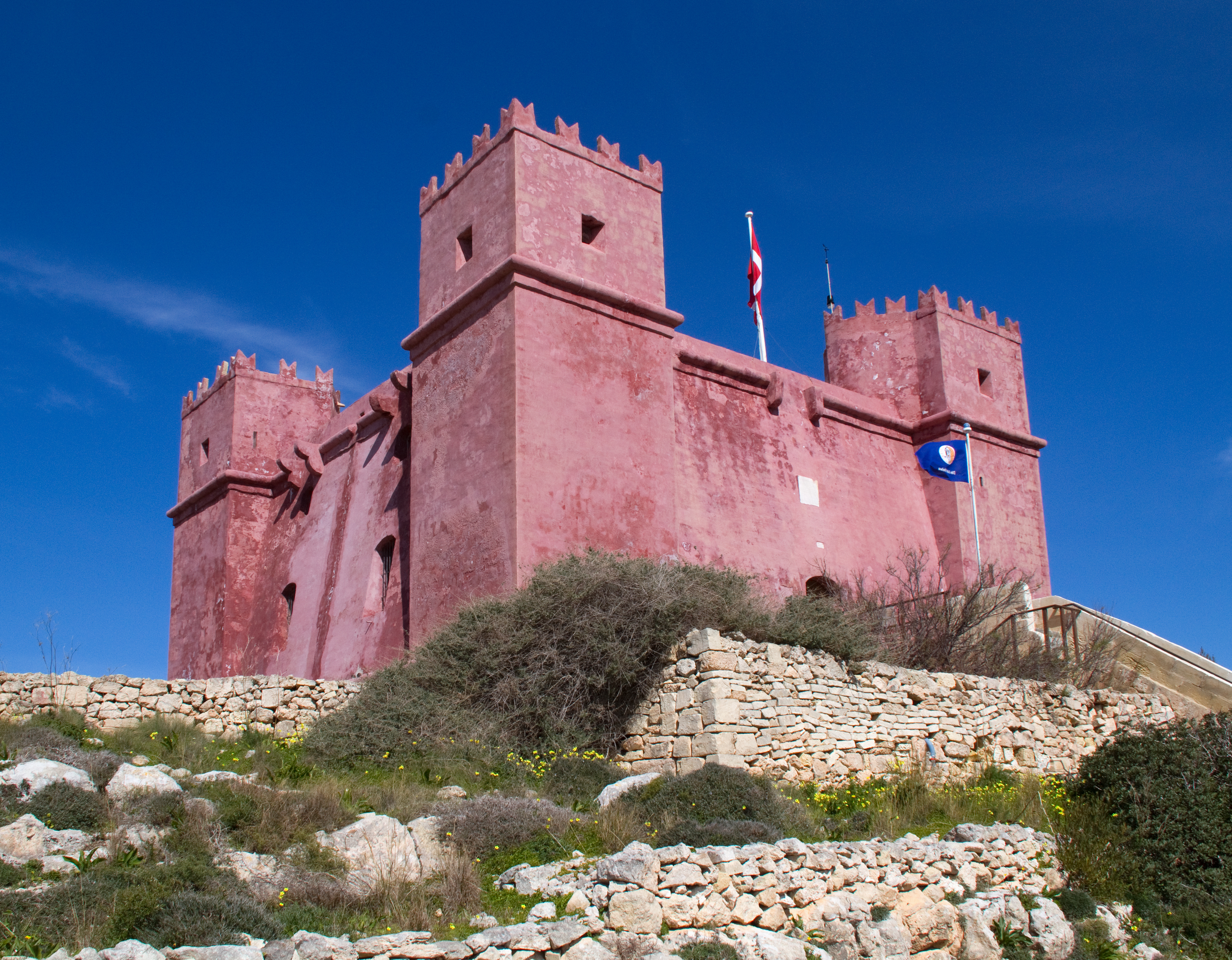 Red Tower 2